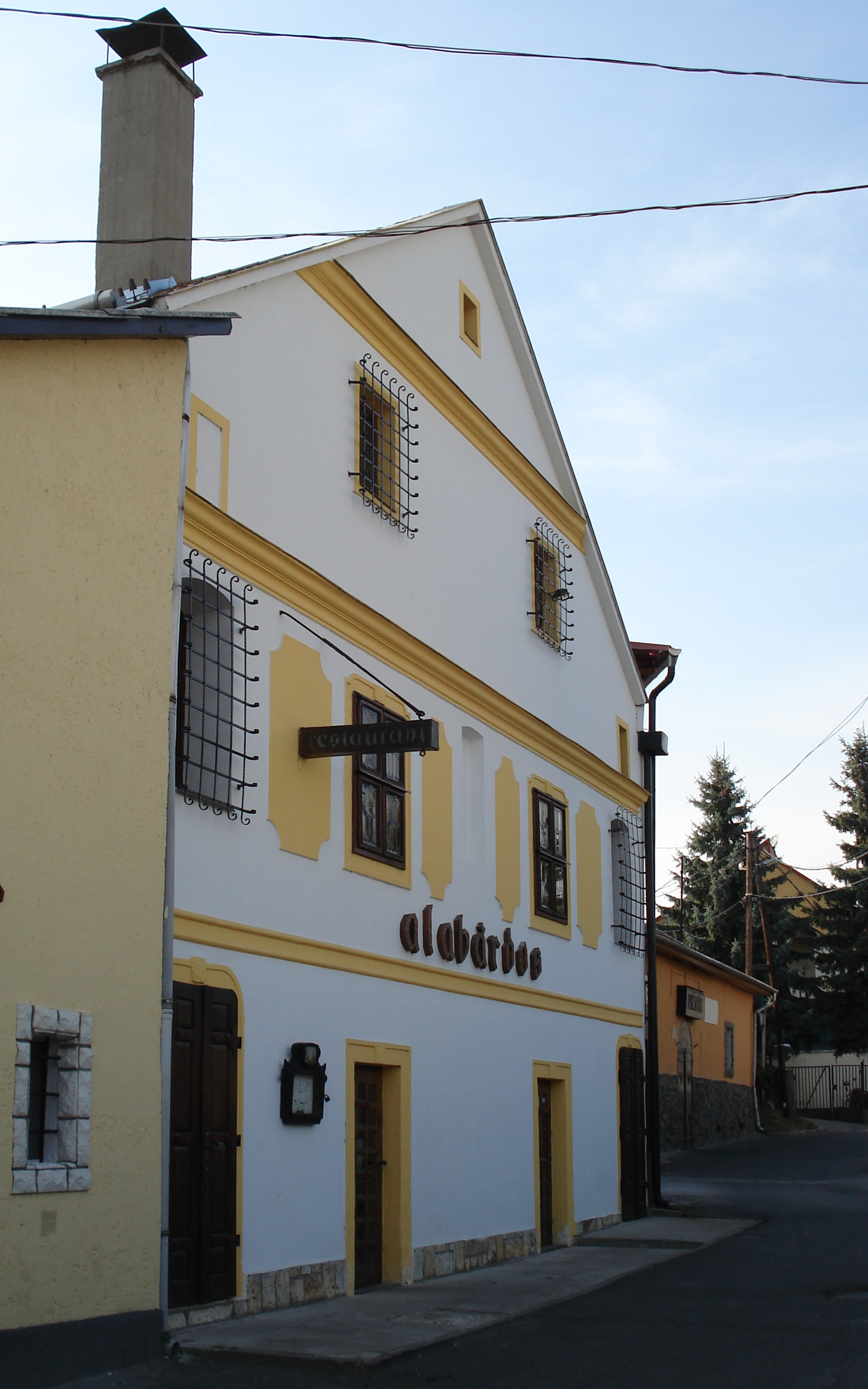 Alabárdos restaurant (old wine cellar), Avas, Miskolc, Hungary